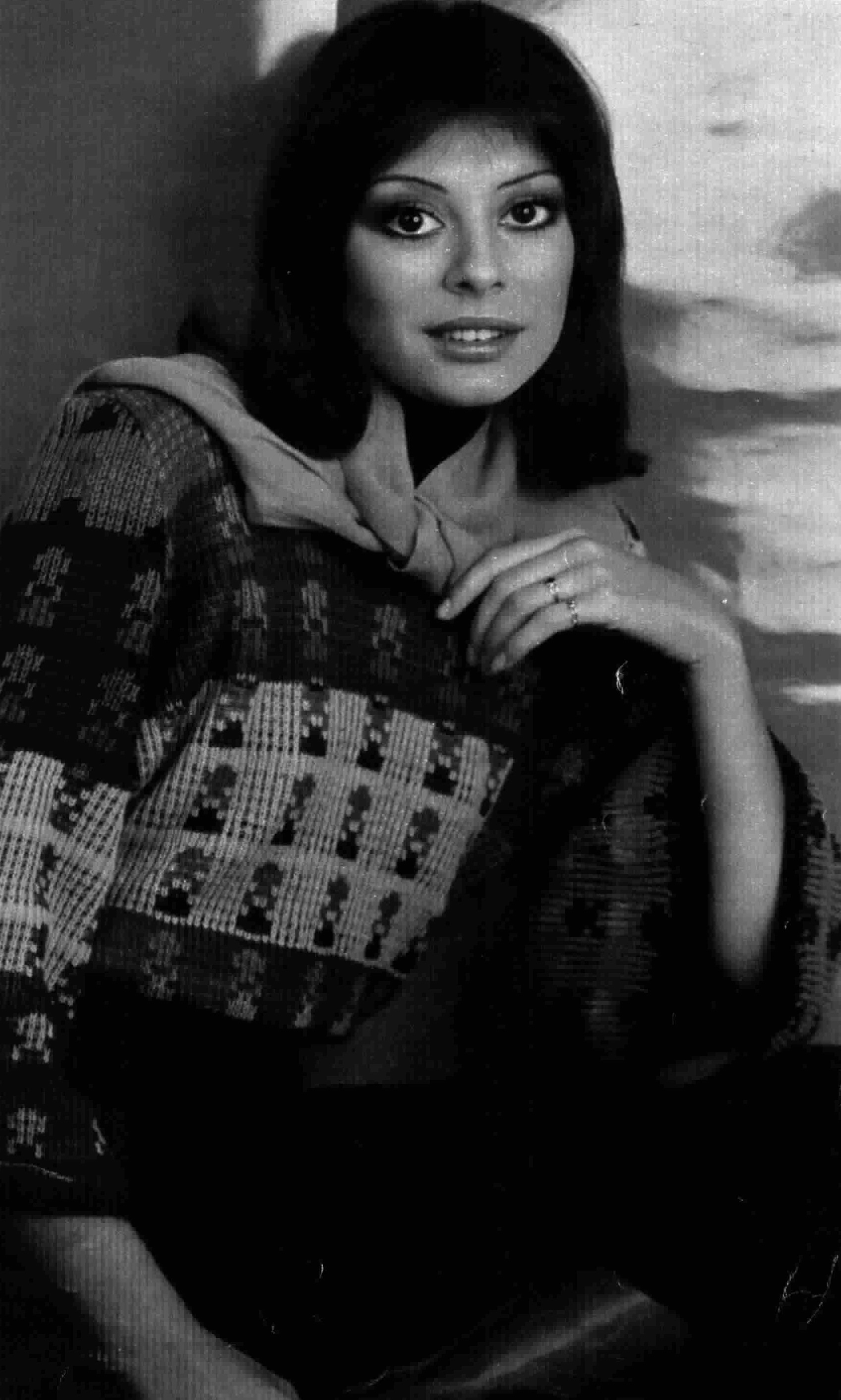 Italian singer Alice poses for the magazine